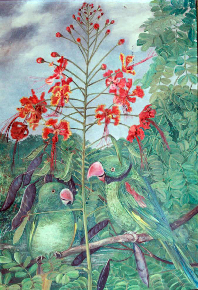 Only known illustration of the extinct Seychelles parakeet (Psittacula wardi) drawn from live specimens. The plant is Caesalpinia pulcherrima, from tropical America.